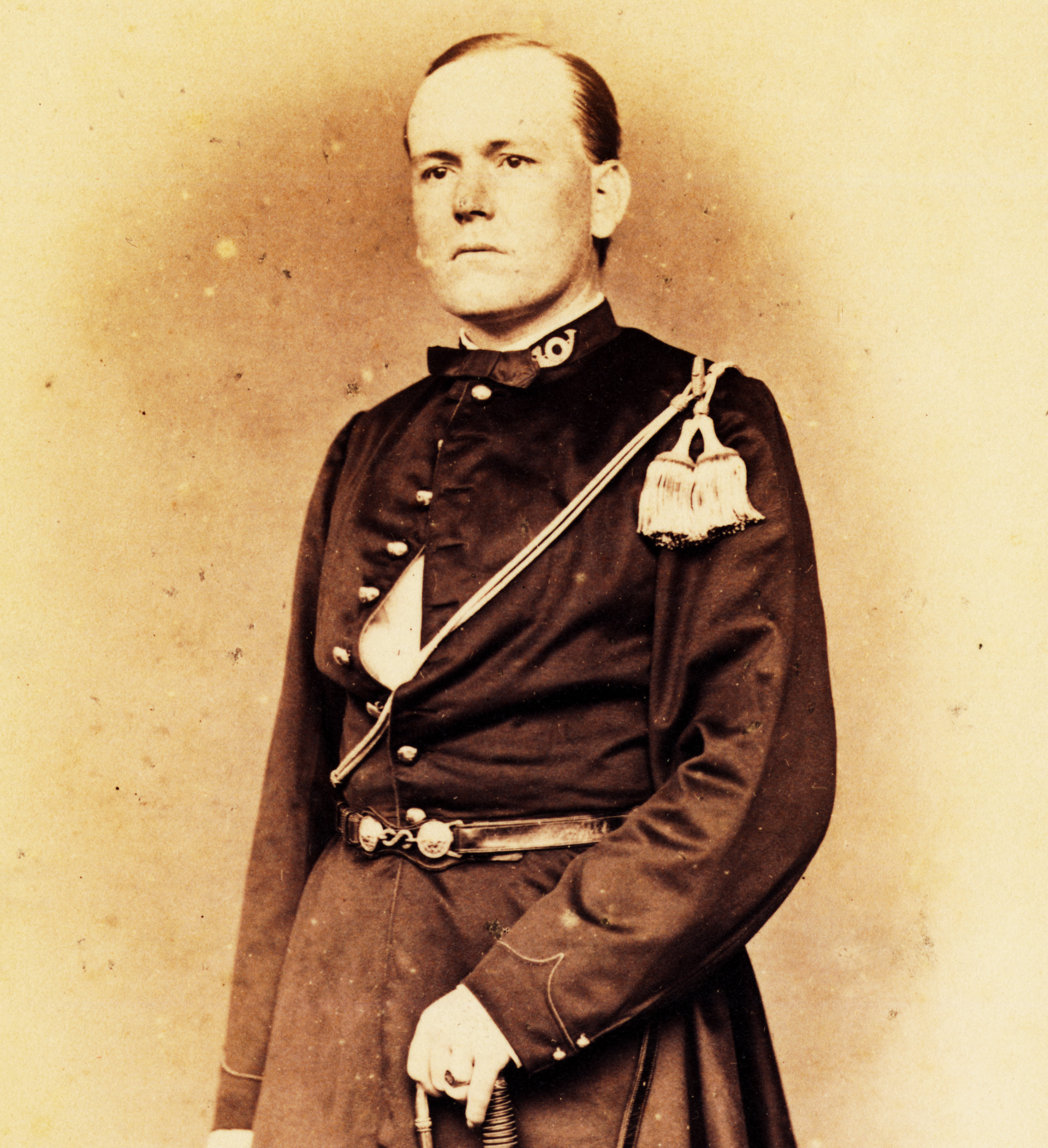 Wilhelm Ludwig Eduard Valentin von Massow